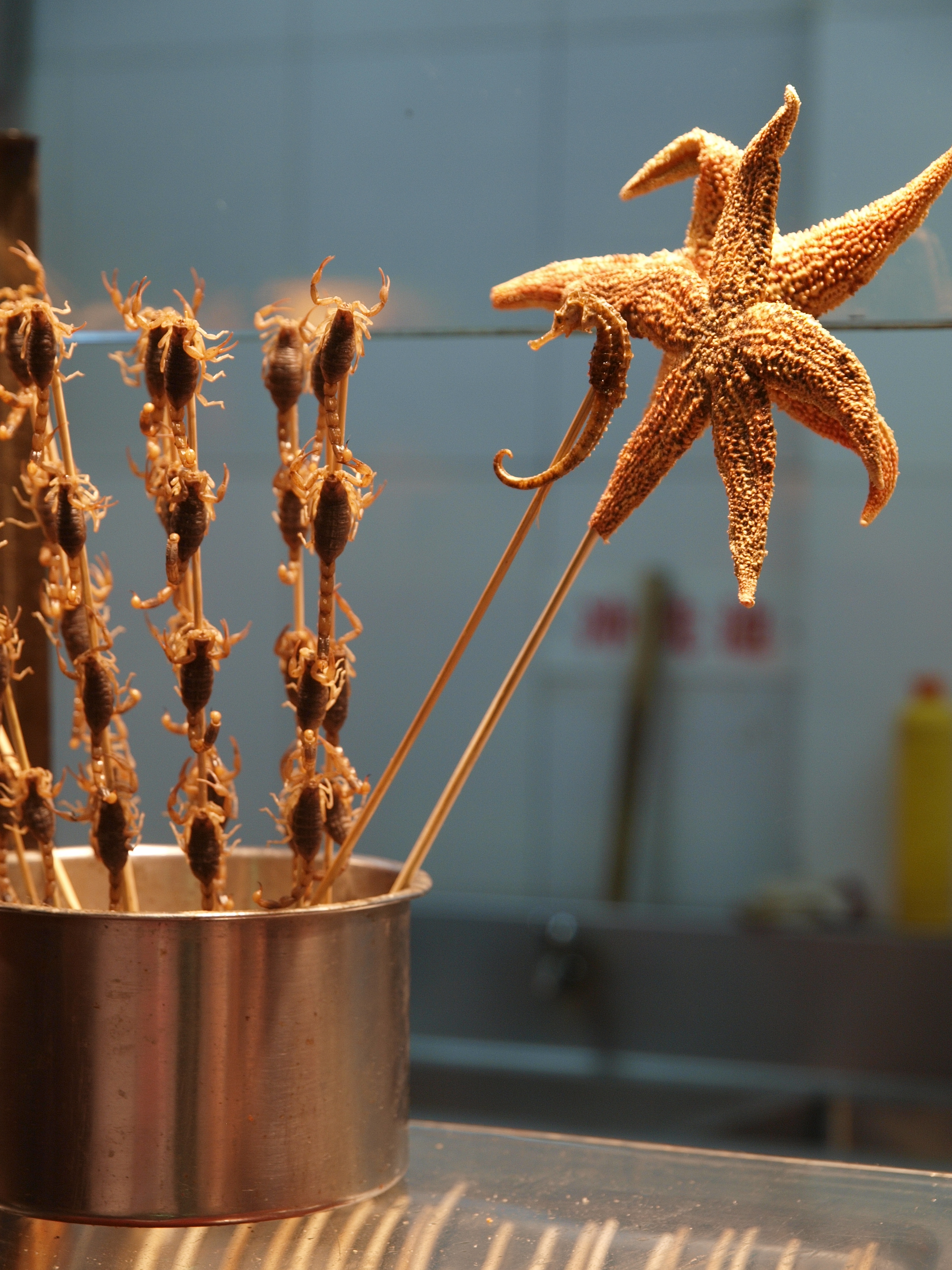 it was so full of people at the insect market, that i didn't manage to take a nice picture. anyway, this snapshot shows some strange animals that can be bought on a market in china!